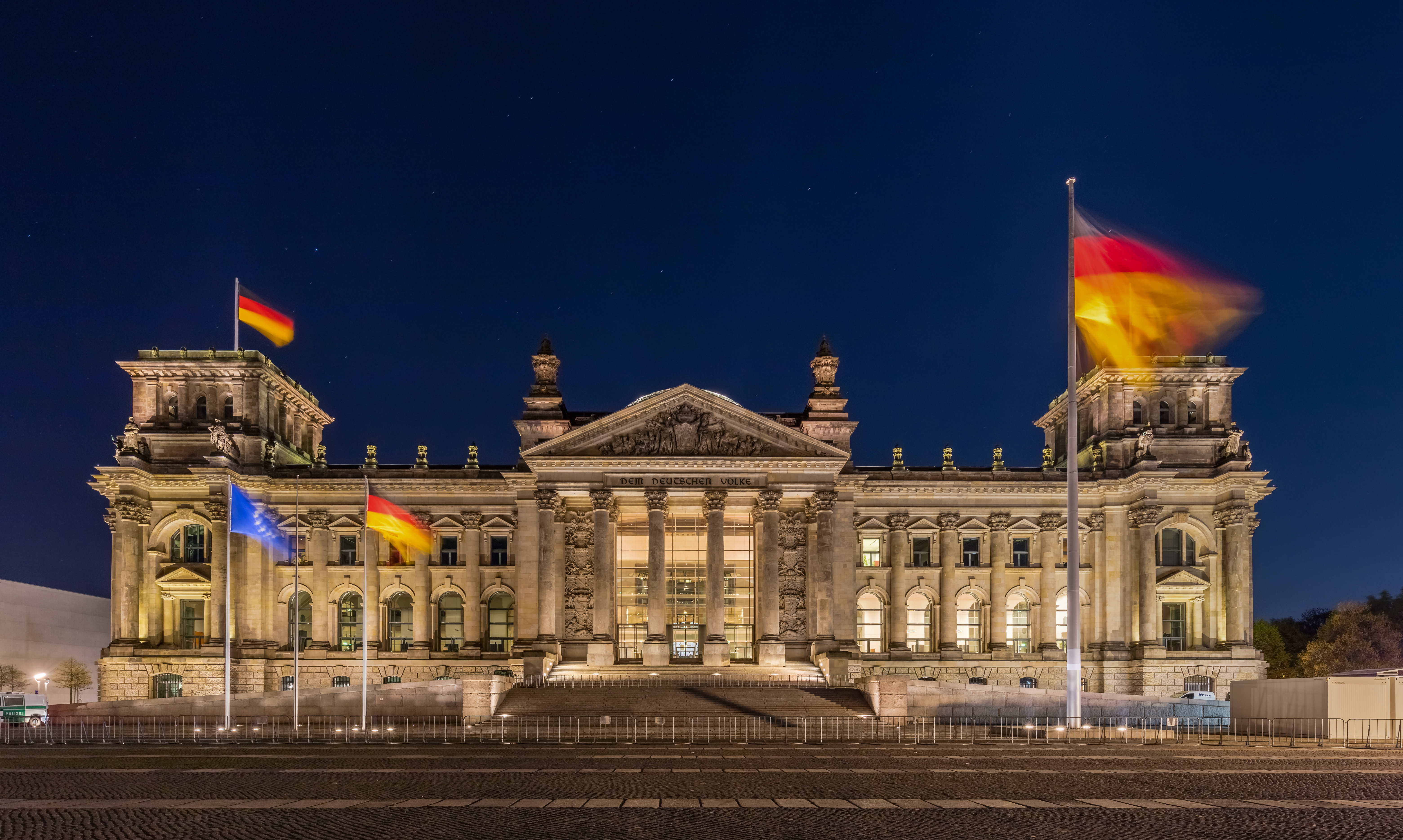 Reichstag (Parliament), Berlin, Germany